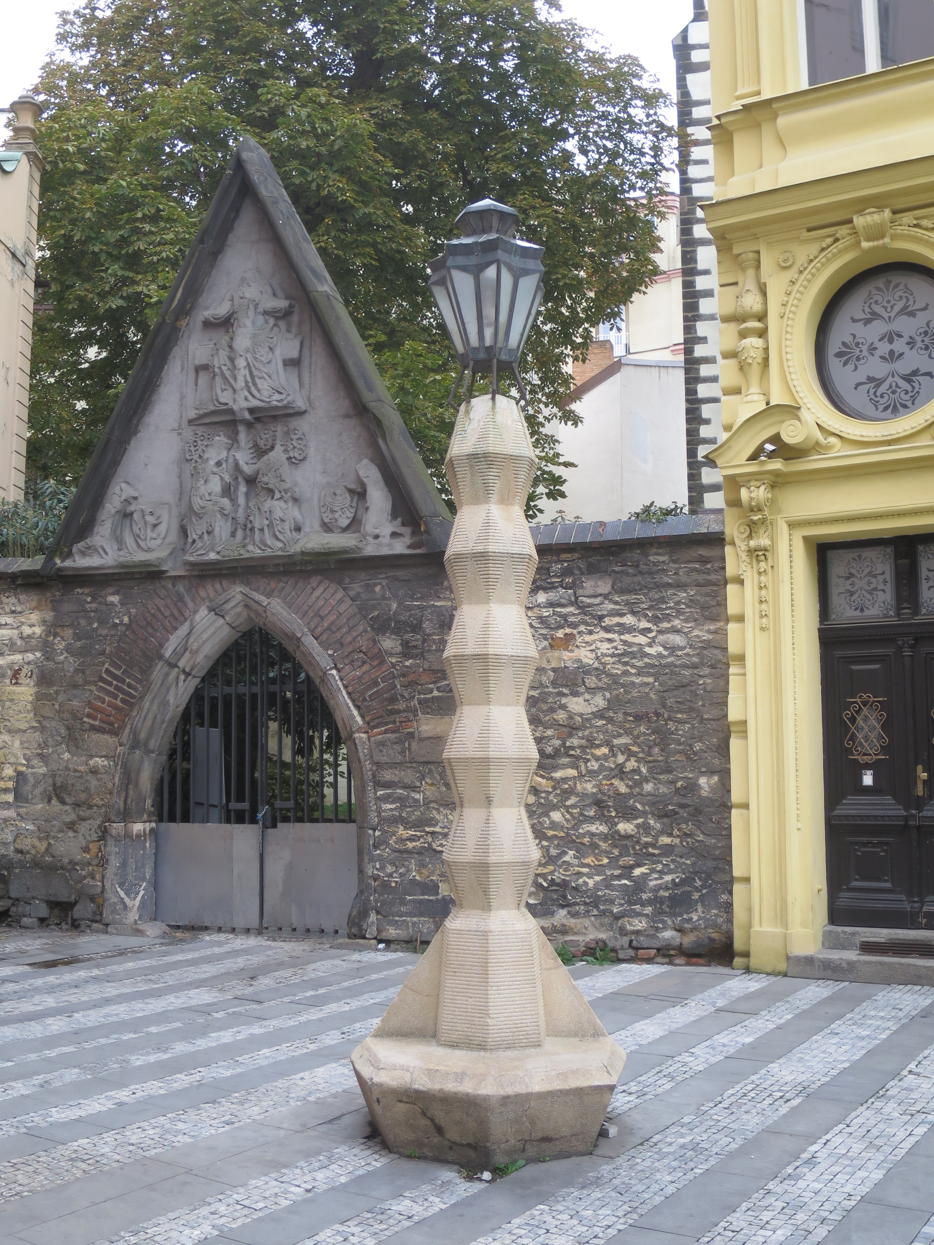 Kubistic street lightening in Prague